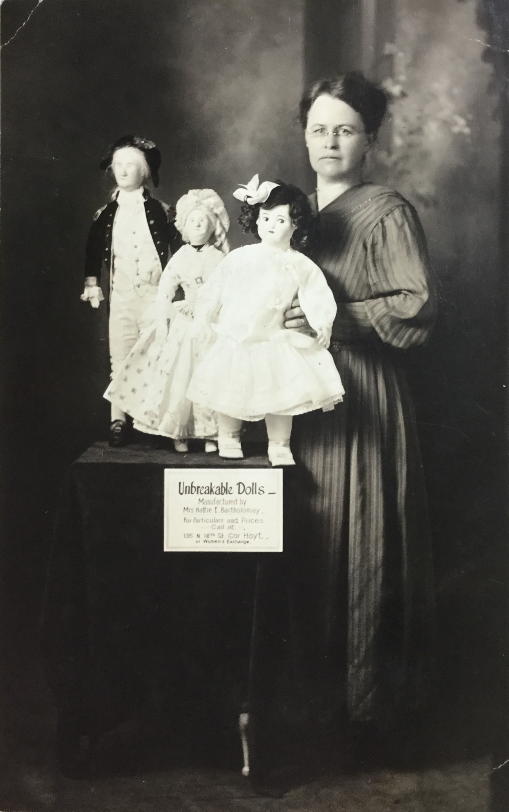 A photograph of Hattie Bartholomay (Harriet Eliza Ross Mansfield Bartholomay Bruckman) (1875-1954) taken circa 1921. I have the original. The photo was taken by The Sowell Studio. The address is given as 11th and Washington but no city is given. It is most Portland, Oregon which is where Hattie was living at that time.